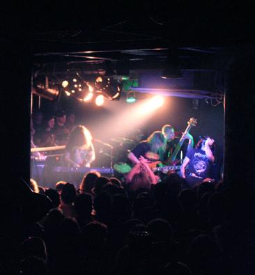 Black metal band Abigail Williams playing the Camden Underworld in 2006.